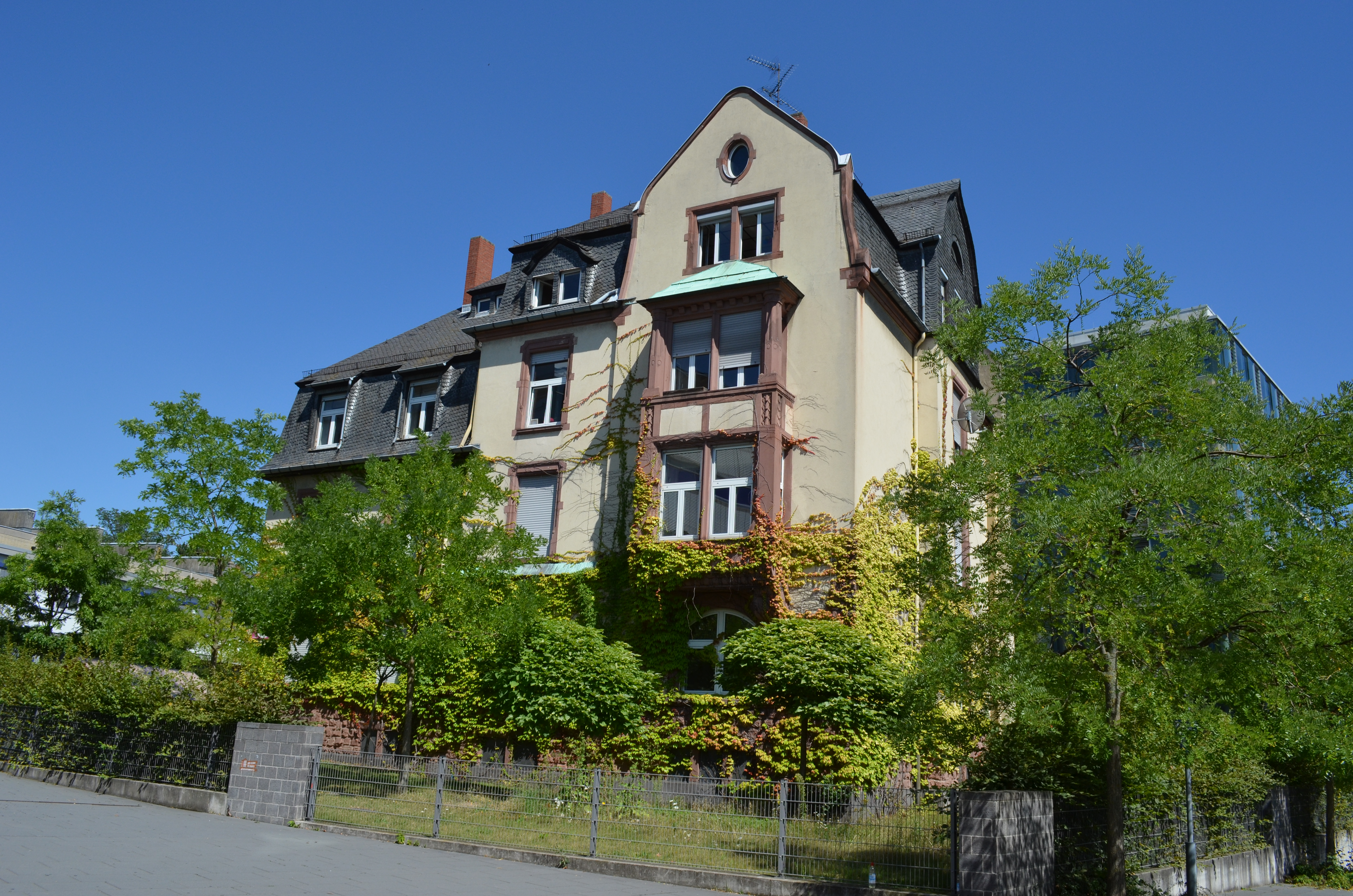 Fachhochschule Frankfurt am Main (FH FFM) - University of Applied Sciences: Building 6, the Kindergarten.